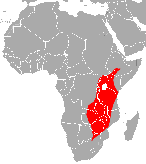 Hildebrandt's Horseshoe Bat (Rhinolophus hildebrandtii) range